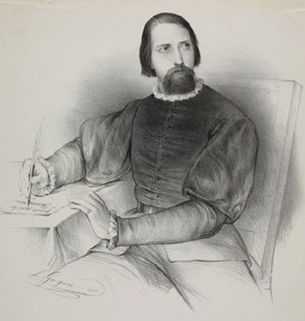 Portrait of the Italian tenor Enrico Crivelli (1820–1870)